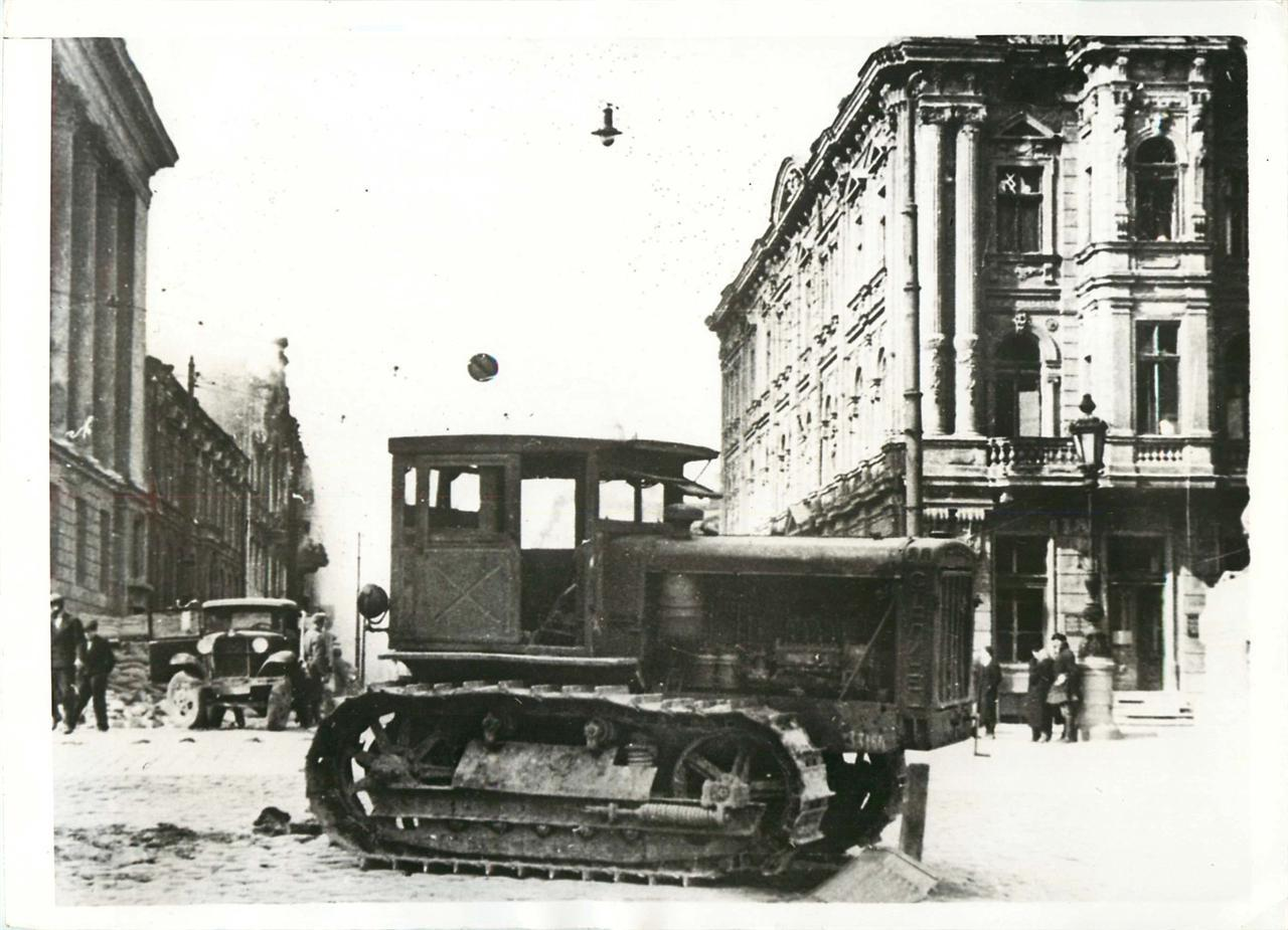 View of Lanzheronovskaya street (in front of City Opera House) soon after Odessa was captured by Axis troops. Abandoned soviet vehicles and barricades. October 1941